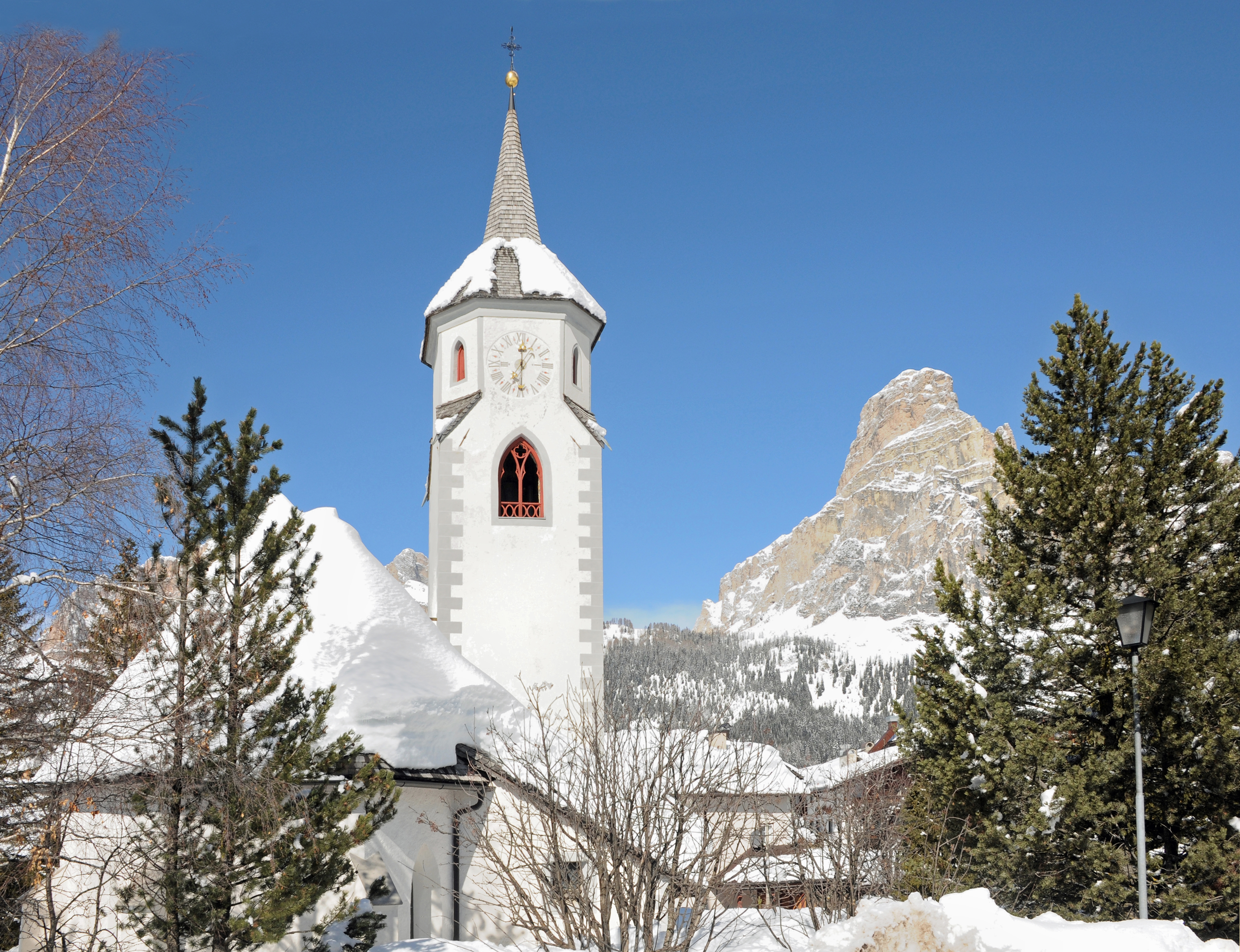 Saint Catherine church in Corvara Italy